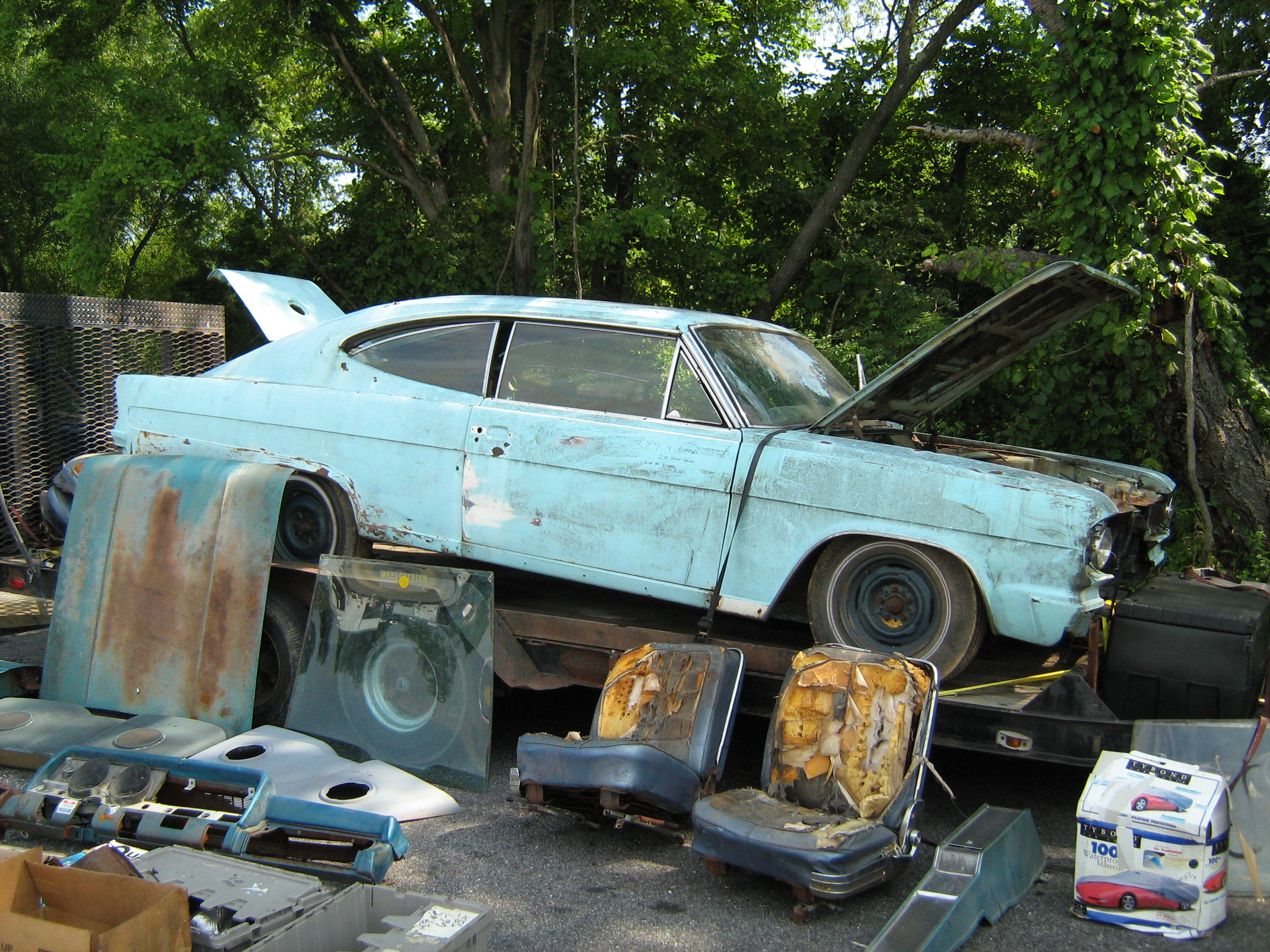 Side view of the car and more parts for the American Motors' Marlin "unibody" rolling chassis ready to be a project automobile. Complete it into a race car, show car, custom car, etc. Just about all the other trim and interior pieces have a second one for backup. Originally with a 327 CID 4-bbl V8 engine, as well as a factory AM/FM radio for the car. Picture taken at the Cecil County Dragstrip in Maryland.